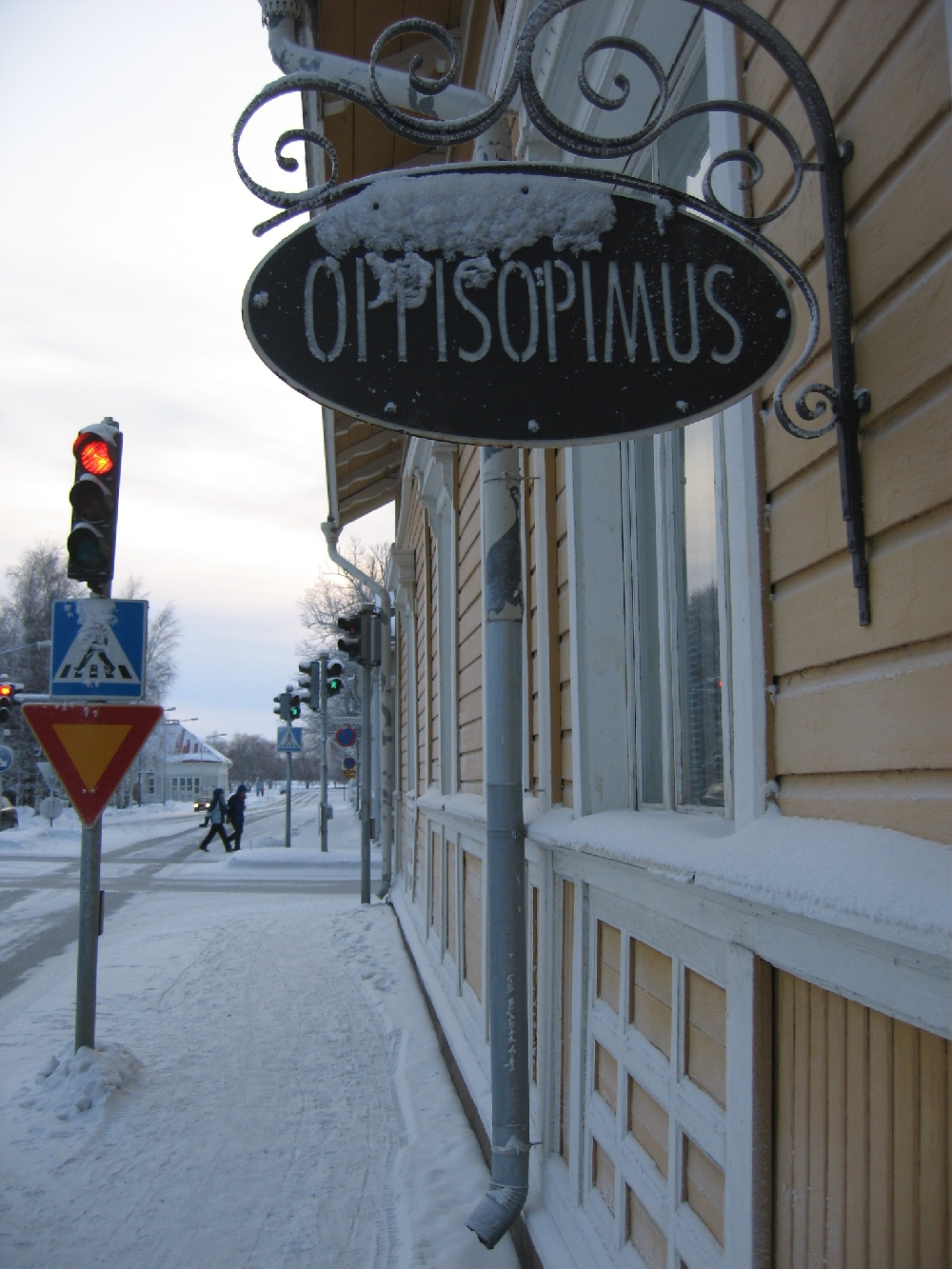 Street Rantakatu in Joensuu, wooden buildings